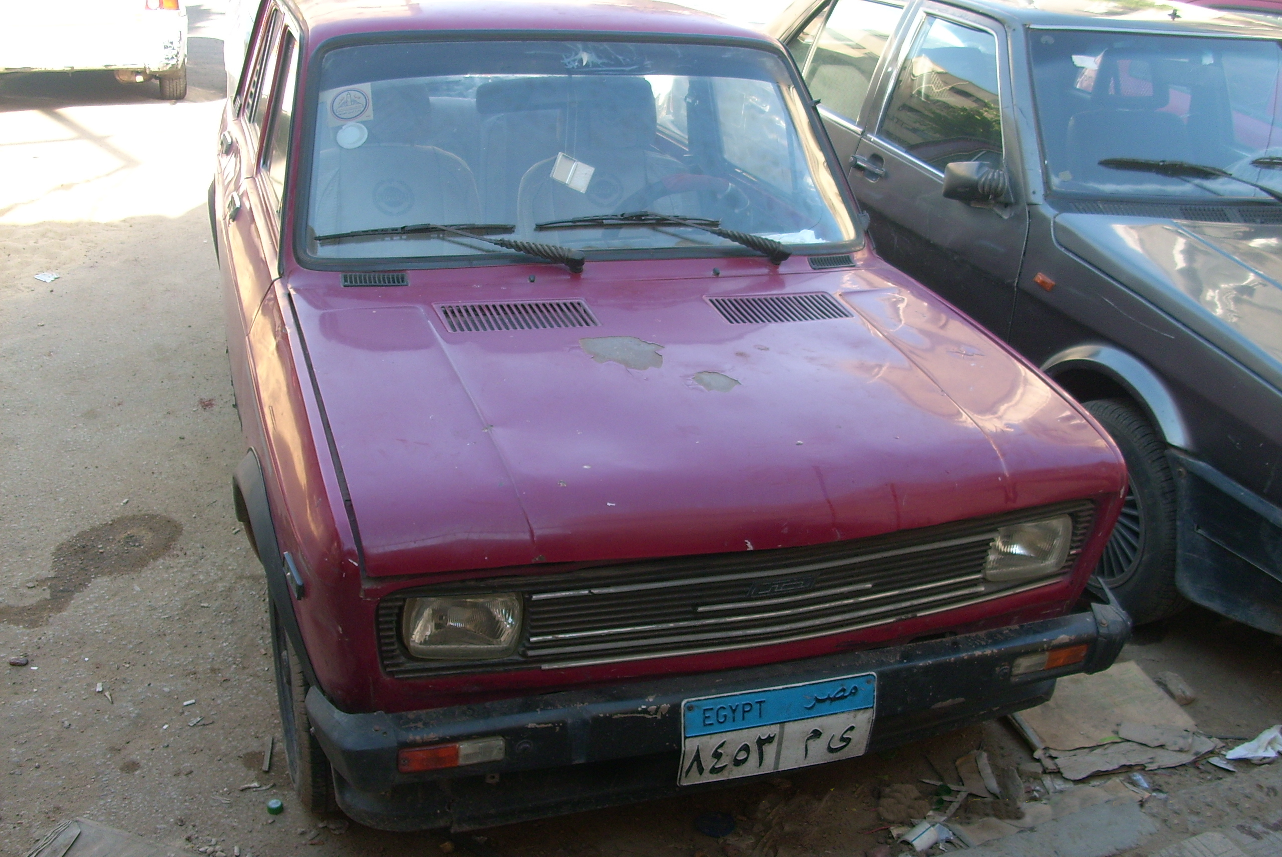 Nasr Fiat 128 Auto